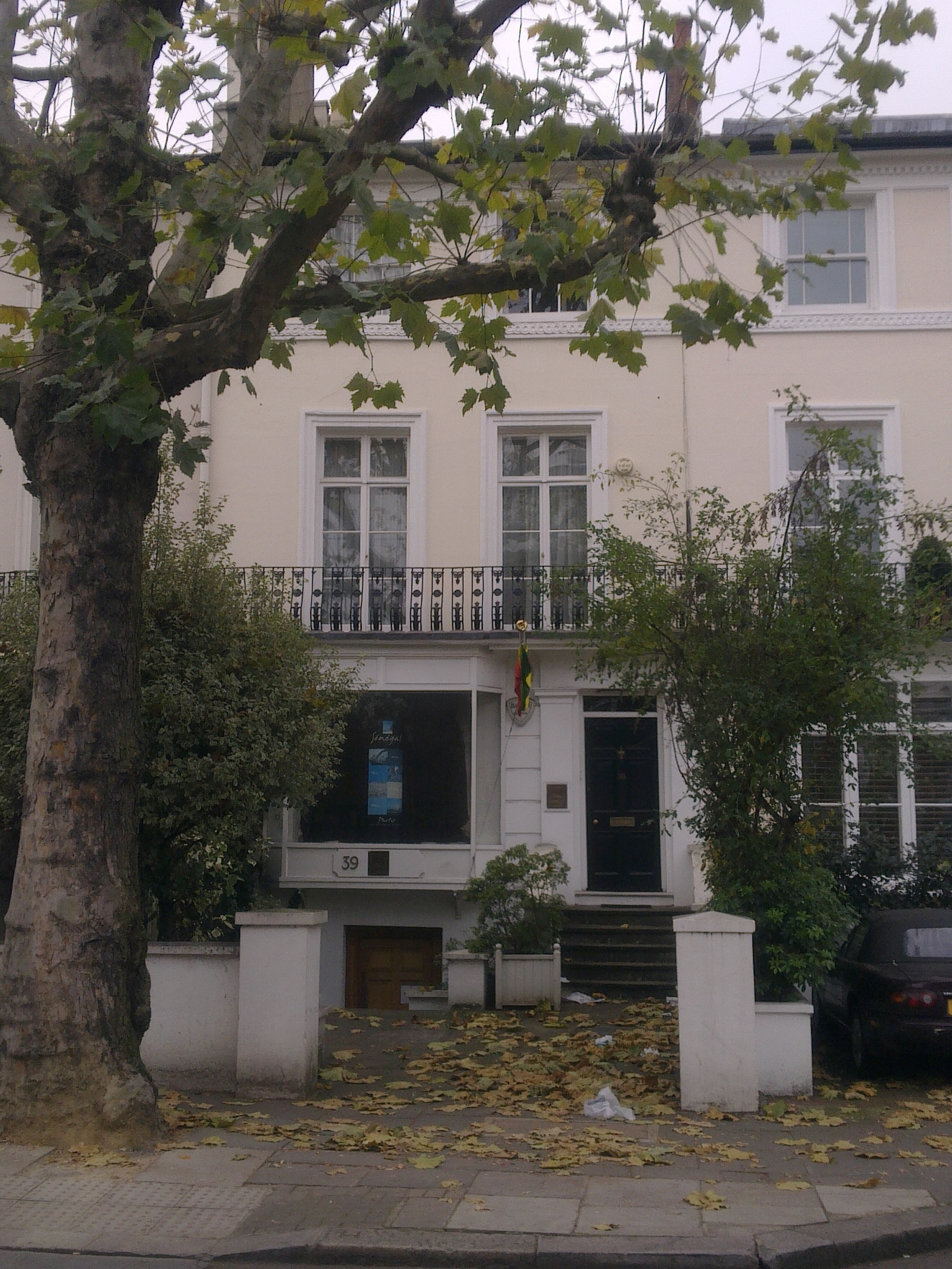 Embassy of Senegal in London 1